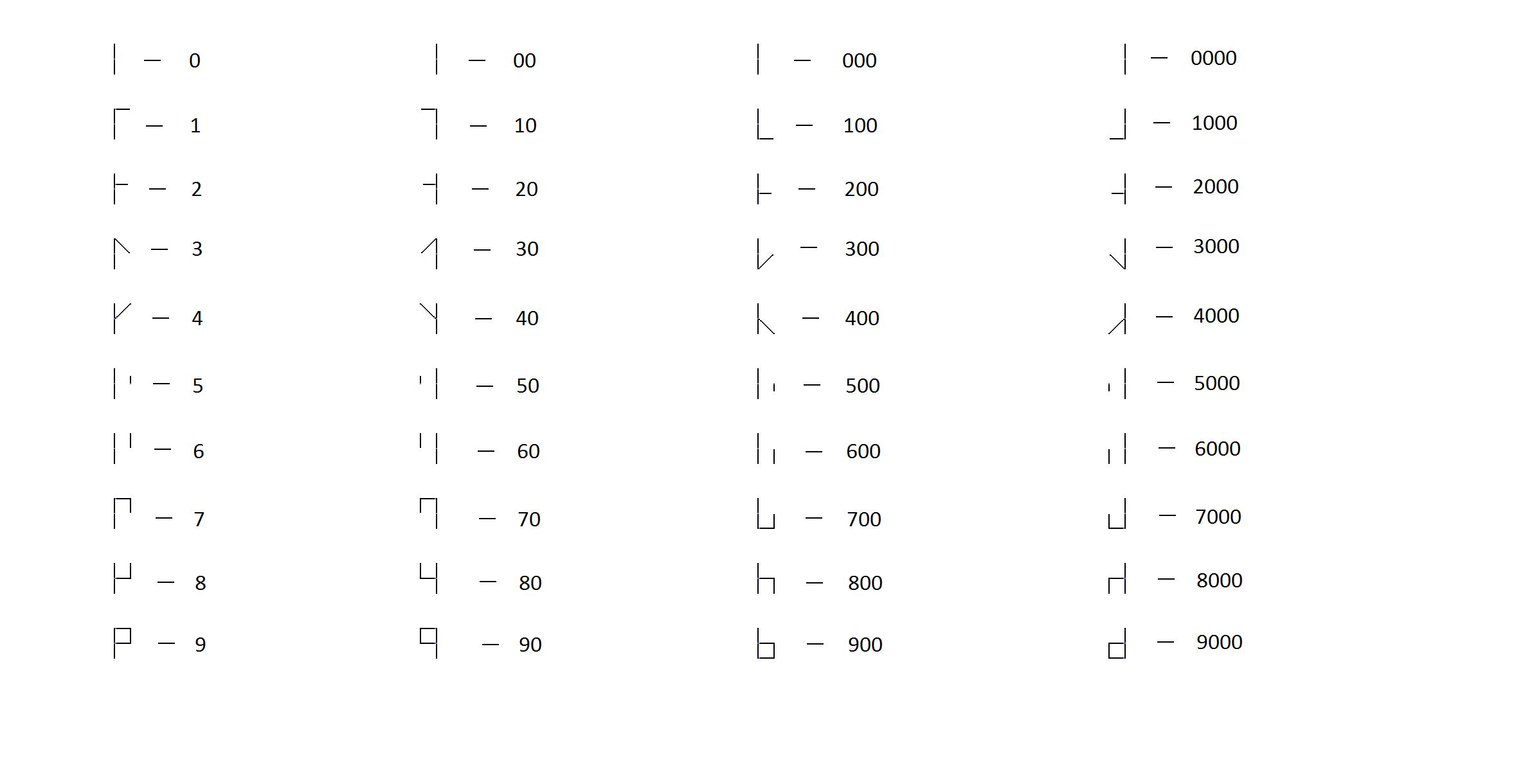 This figure describes each of the possible symbols that can be used in the Notae Elegantissimae Number System.